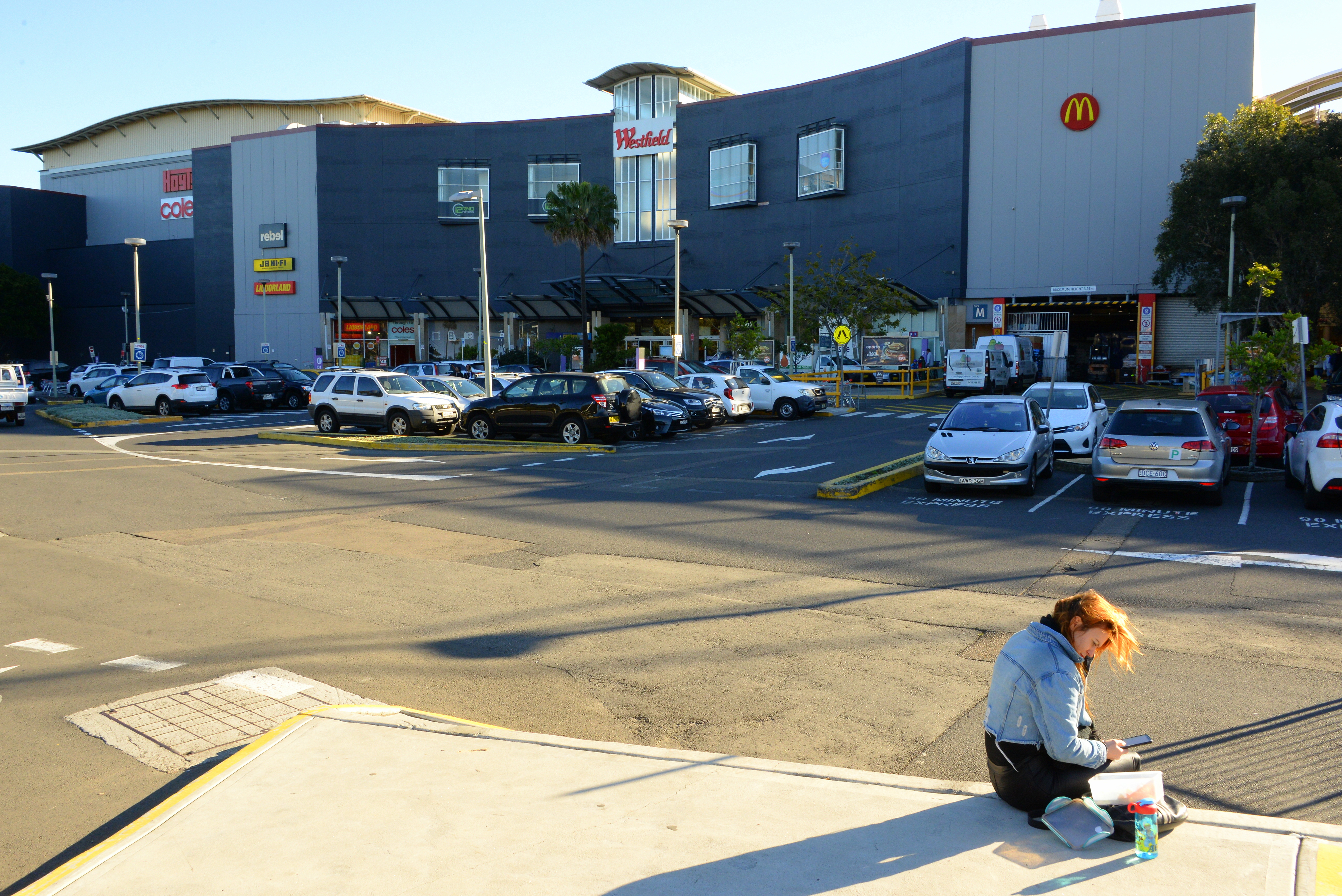 Warringah Mall, Brookvale, Sydney